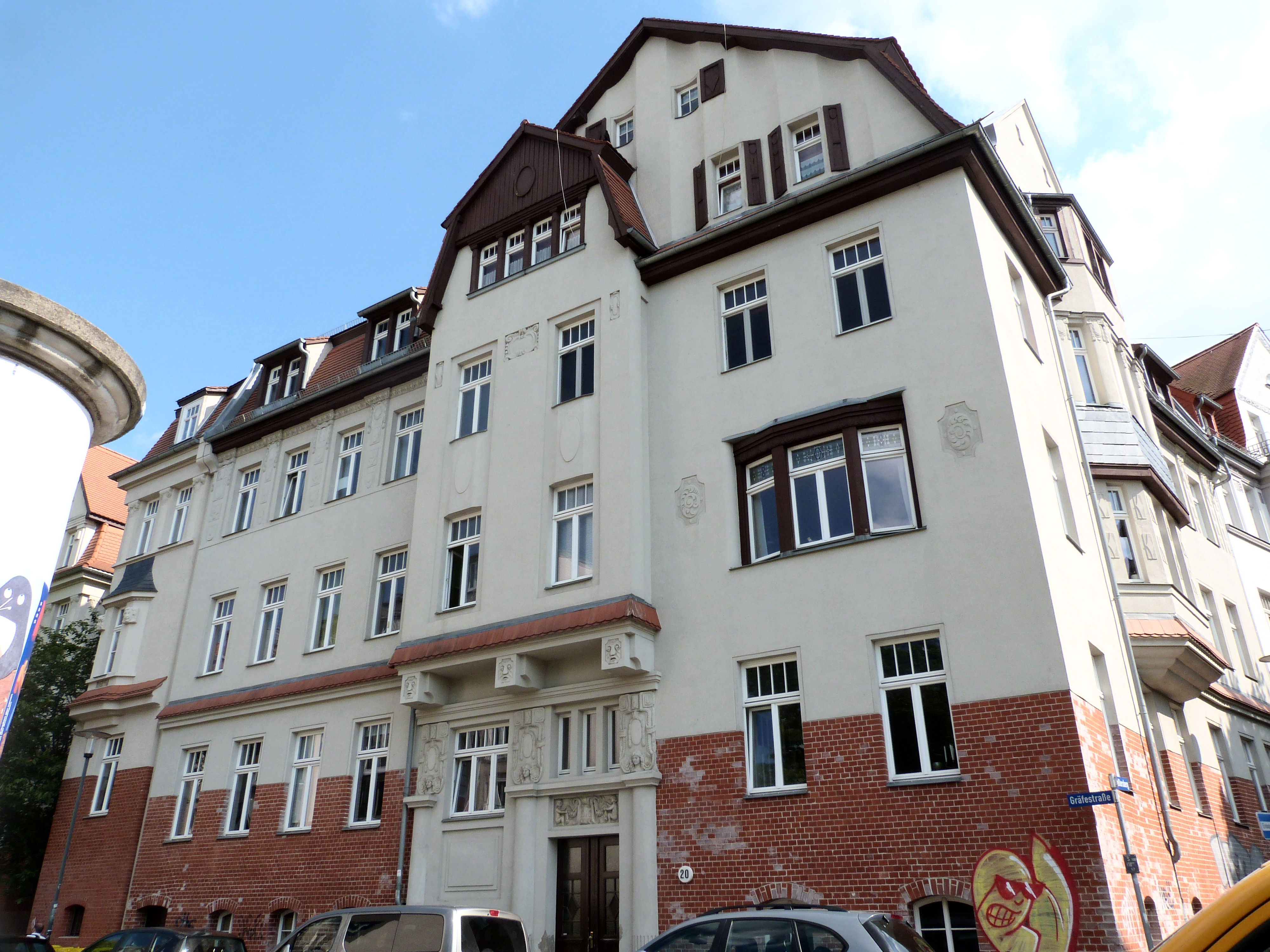 House No. 20 Graefestrasse in Halle (Saale)